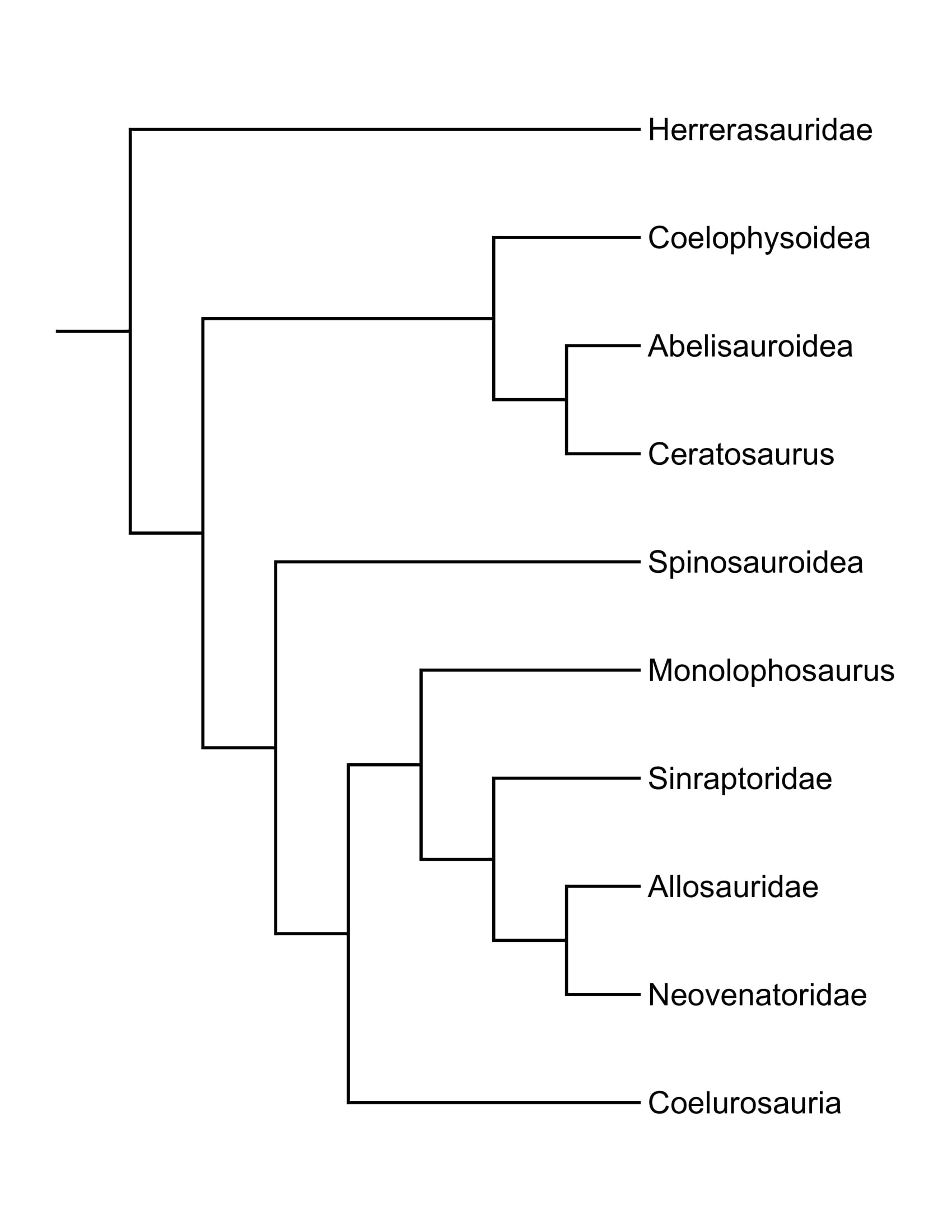 phylogenetic tree of allosauridae and closely related dinosaurs